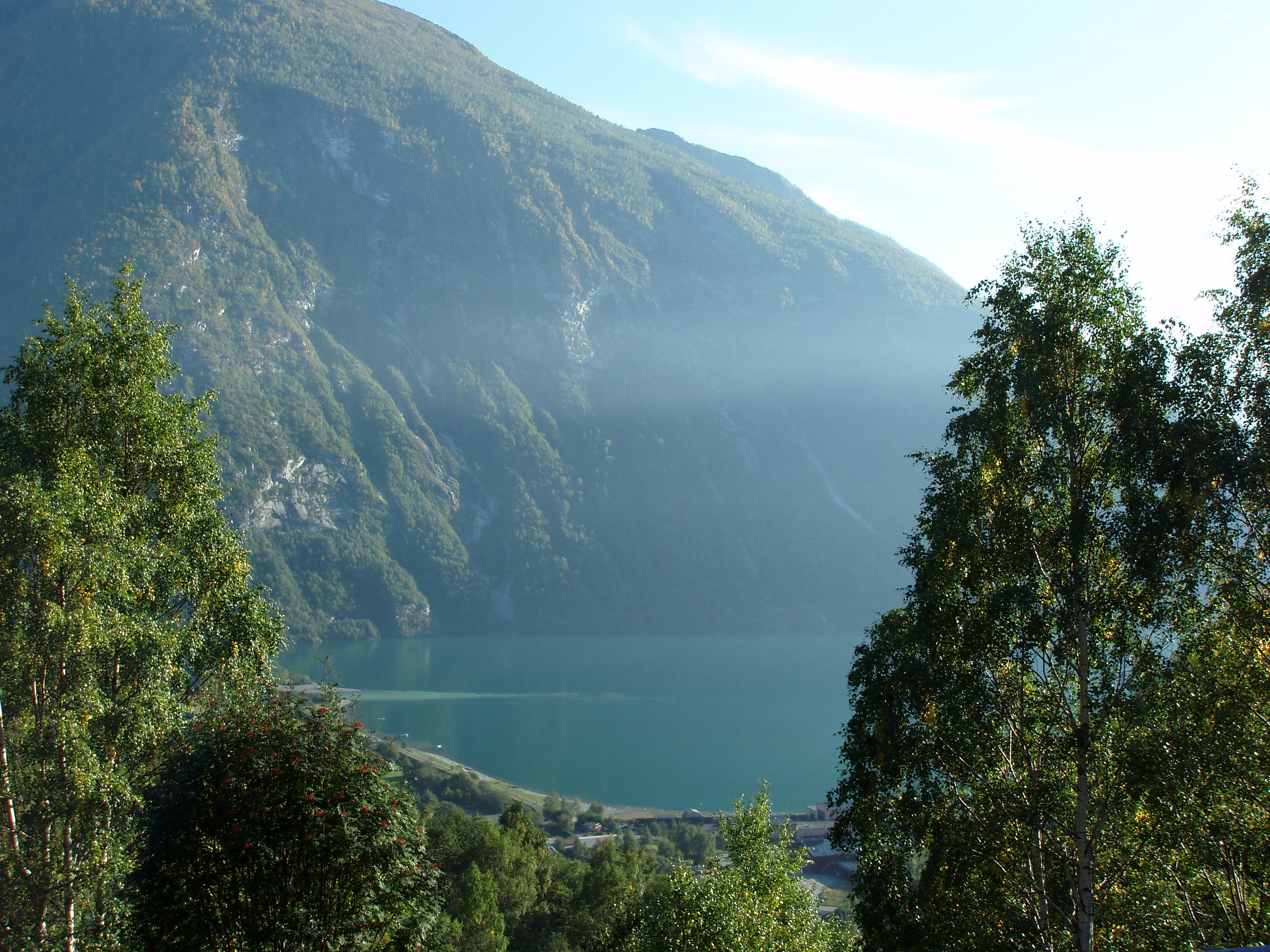 Årdalsvatnet and Utla delta in Øvre Årdal